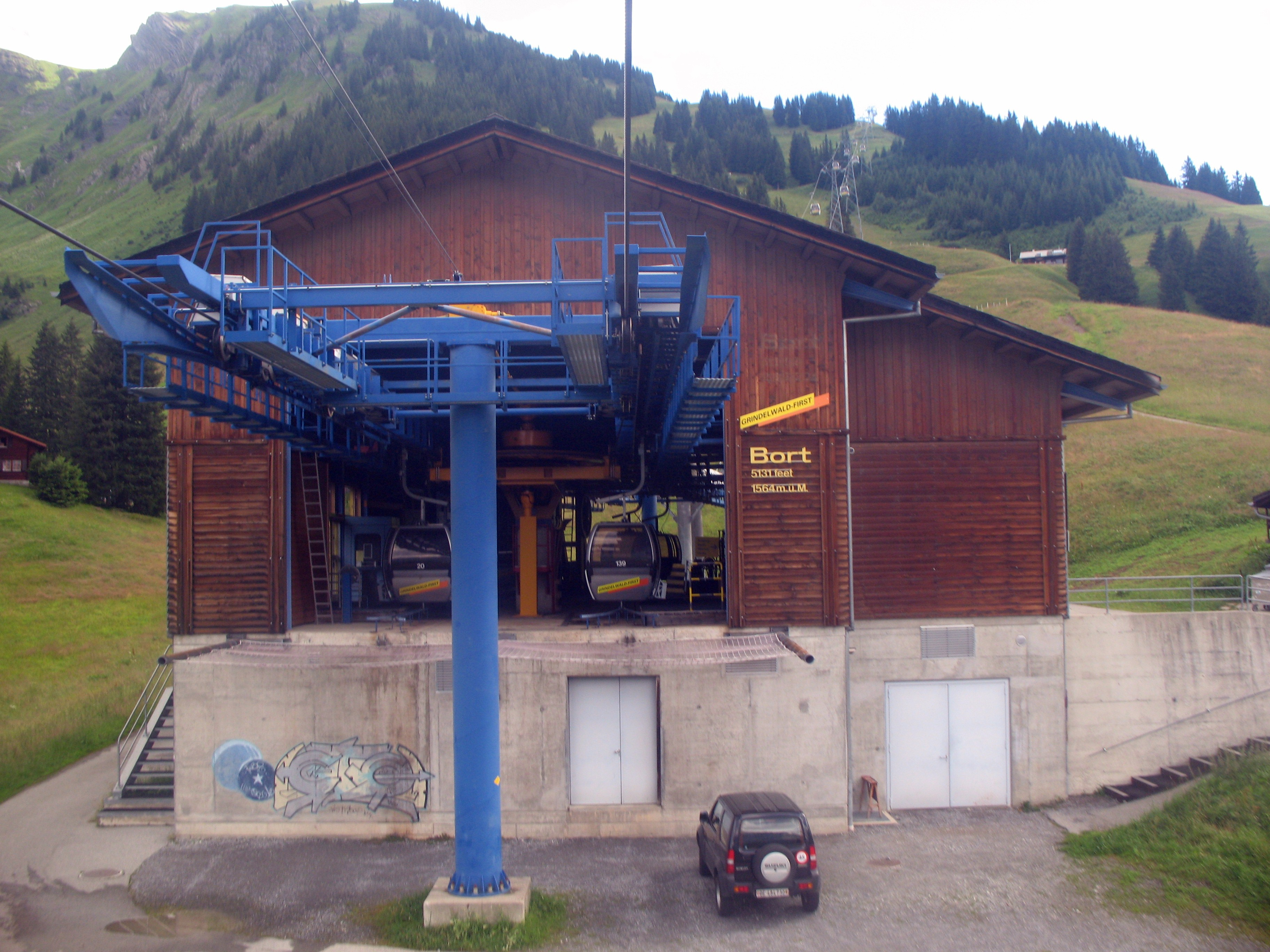 Bort Station on the First gondola lift, Grindelwald, Switzerland